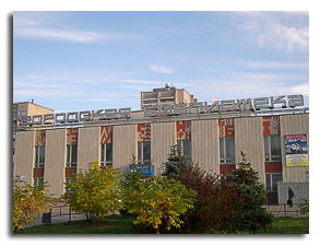 Obninsk Central Library building Здание Центральной библиотеки города Обнинска